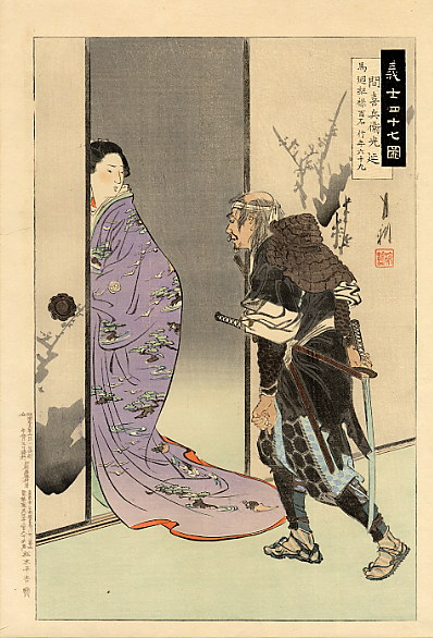 Ronin are masterless samurai. Chushingura is the true story of 47 samurai who became masterless in 1701, after their lord had been forced to commit ritual suicide (seppuku) for assaulting a court official who had insulted him. They avenged him by killing the court official after patiently planning for over a year. They were themselves then forced to commit seppuku.